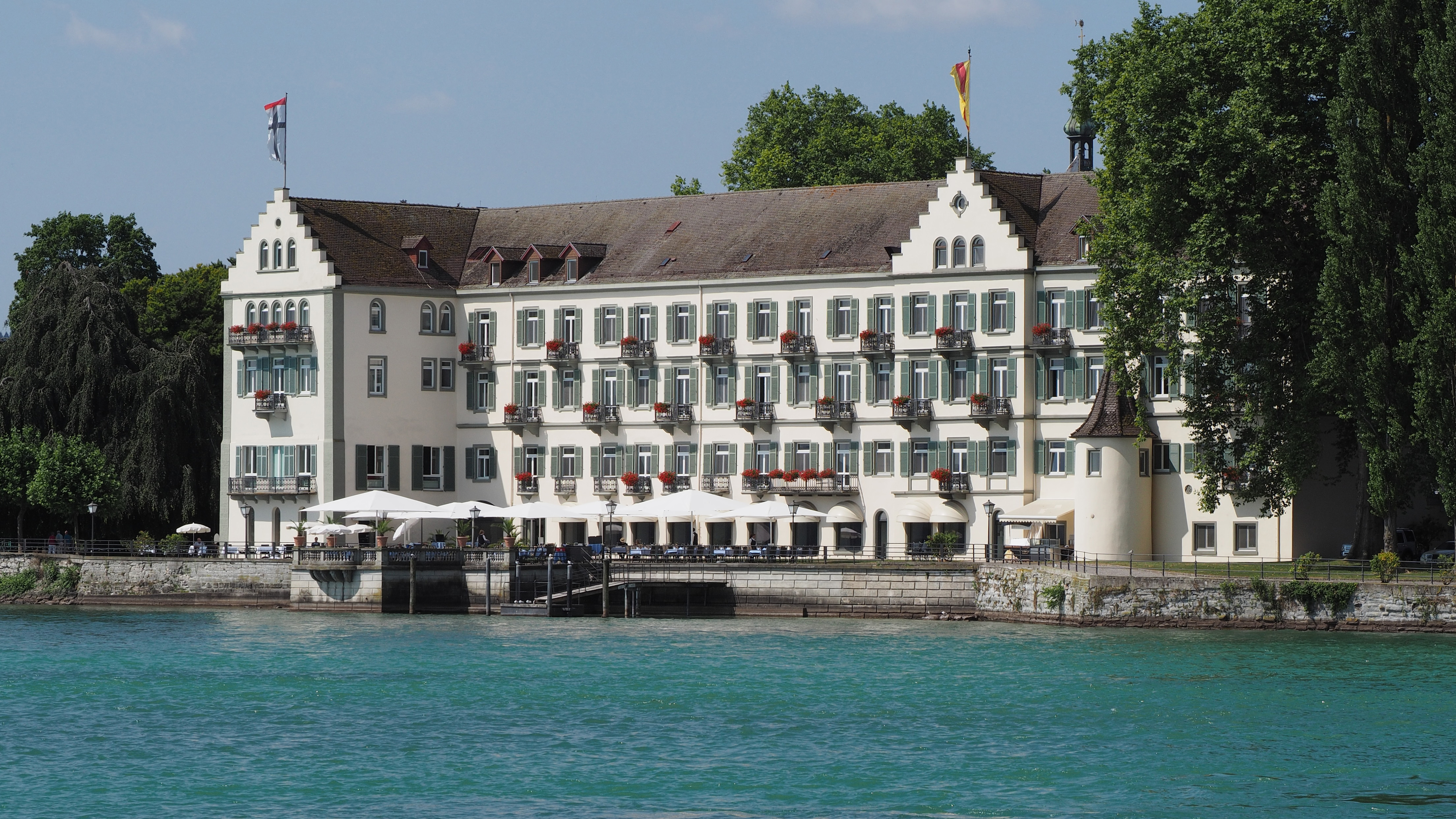 Dominikanerinsel in Konstanz. The Bohemian reformer Jan Hus, which was burned as a heretic in Konstanz, was several months imprisoned here.